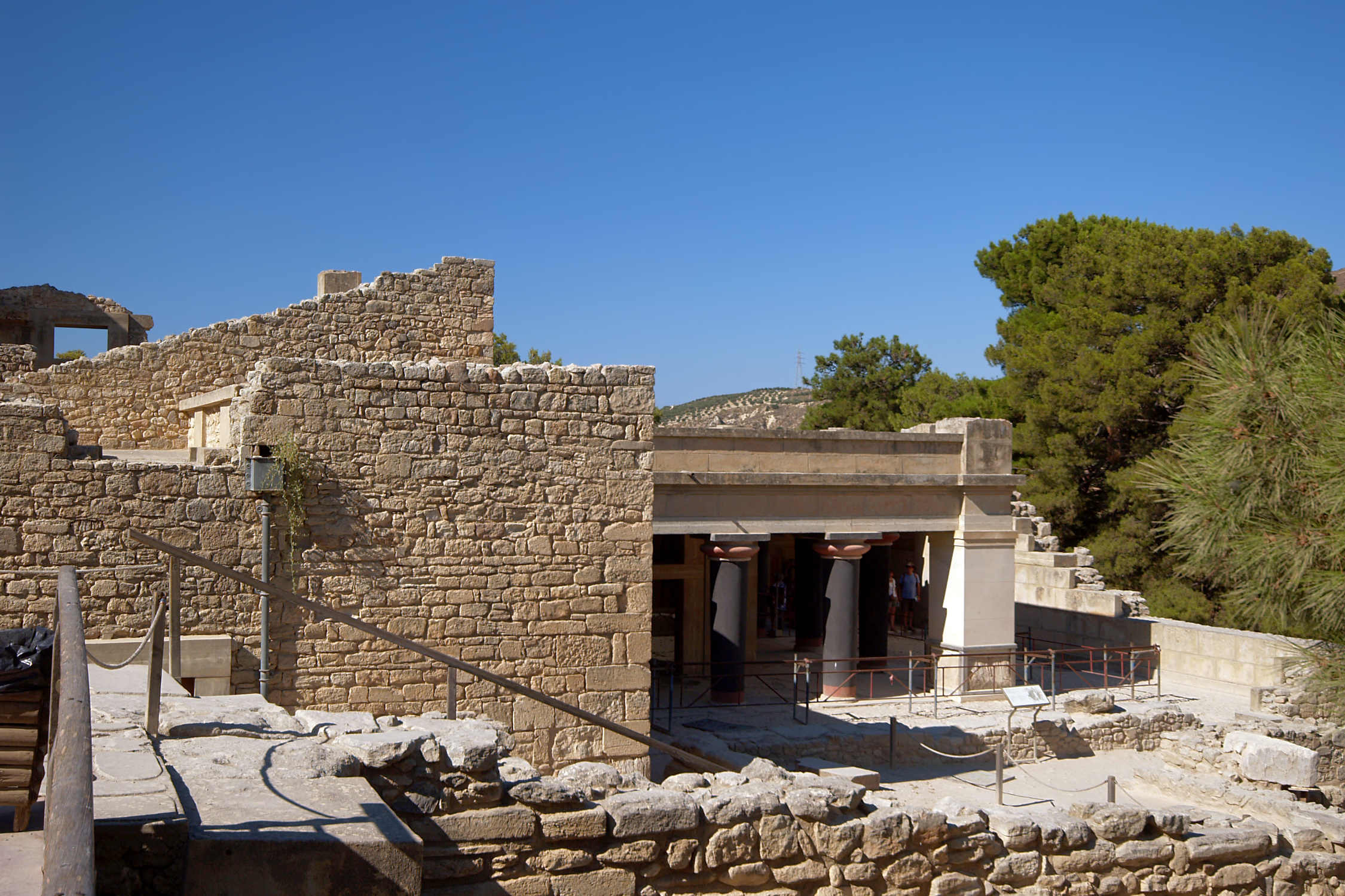 Minoan Palace at Knossos